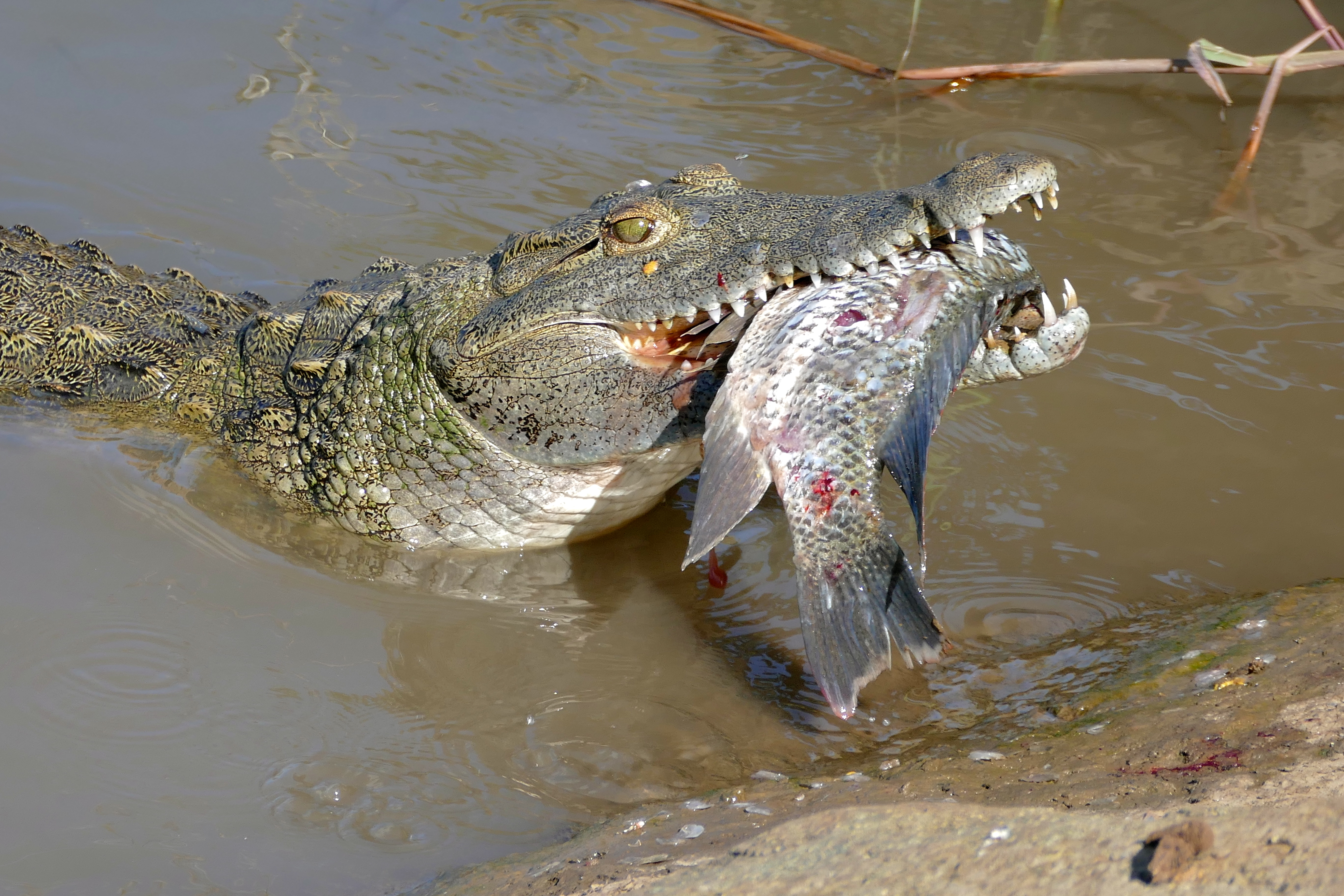 Sabie Bridge, H10 Road East of Lower Sabie, Kruger NP, SOUTH AFRICA